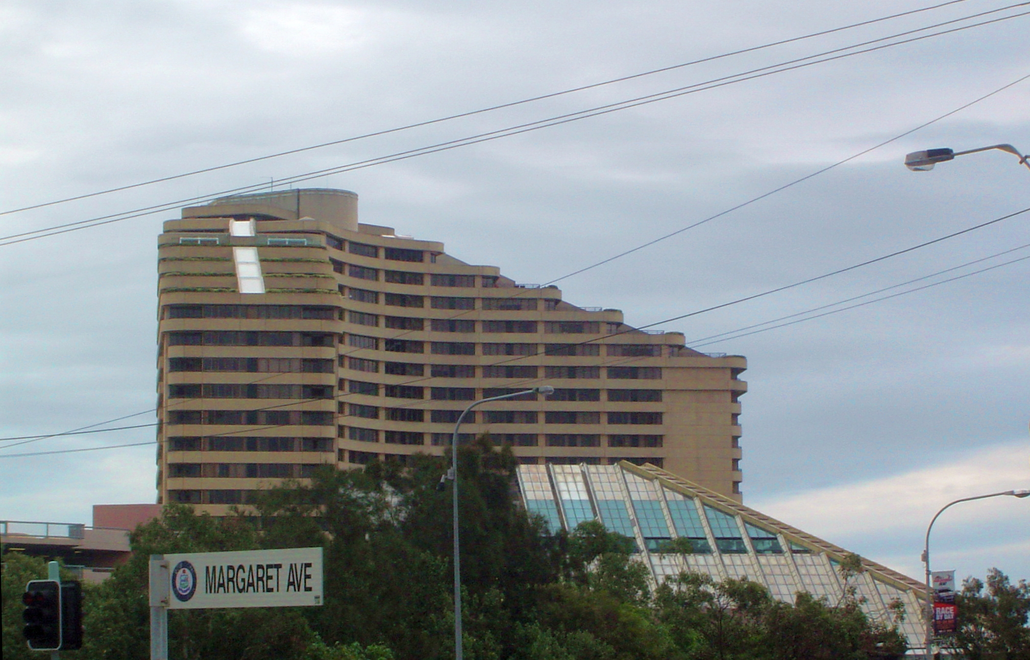 Photo of Jupiters Casino and Hotel building, Broadbeach, Gold Coast, Australia